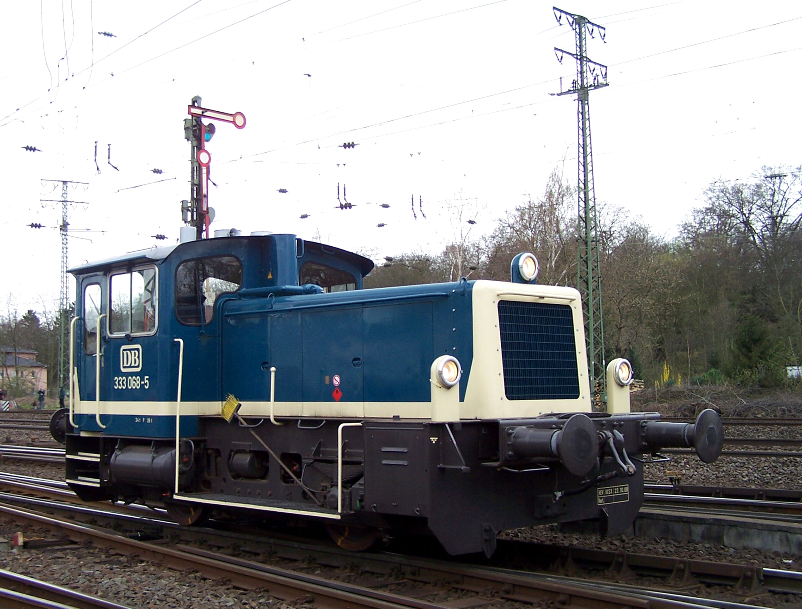 Diesel locomotive 333 068 during a locomotive parade at the DB Museum in Koblenz-Lützel, a local branch of the Transport Museum in Nuremberg, April 2010